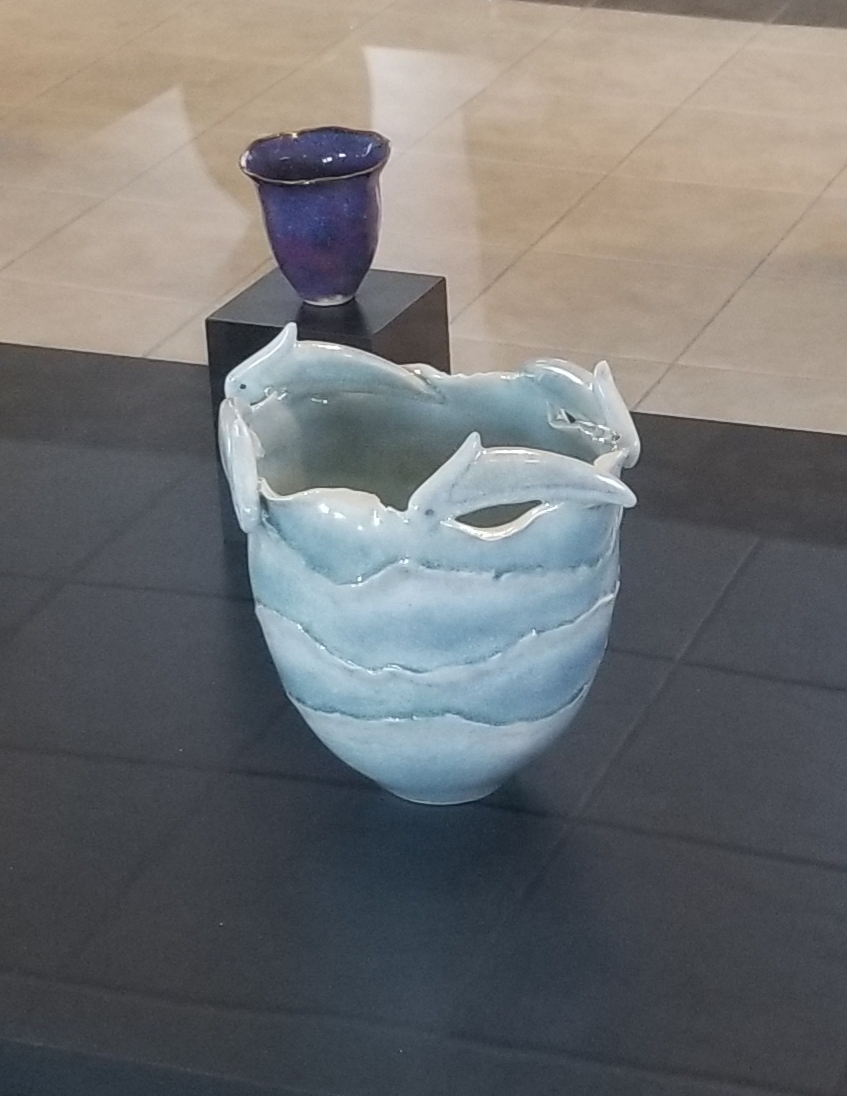 Blue Dolphin Vase accredited to Nan And James McKinnell. Photo taken at St. Catherine University, Ceramics Highlights show.